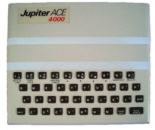 Jupiter ACE resource, with permission, transformed into a new work. Image of a public artifact.